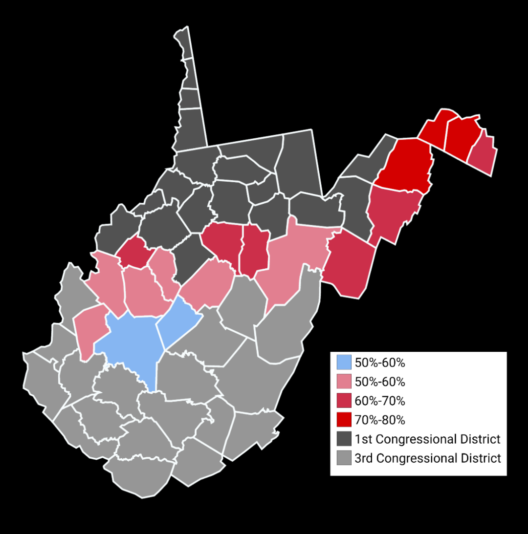 Map showing the results of the 2016 election in West Virginia's second congressional district by County.